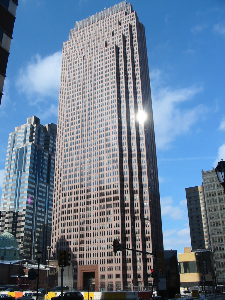 andrew aiello